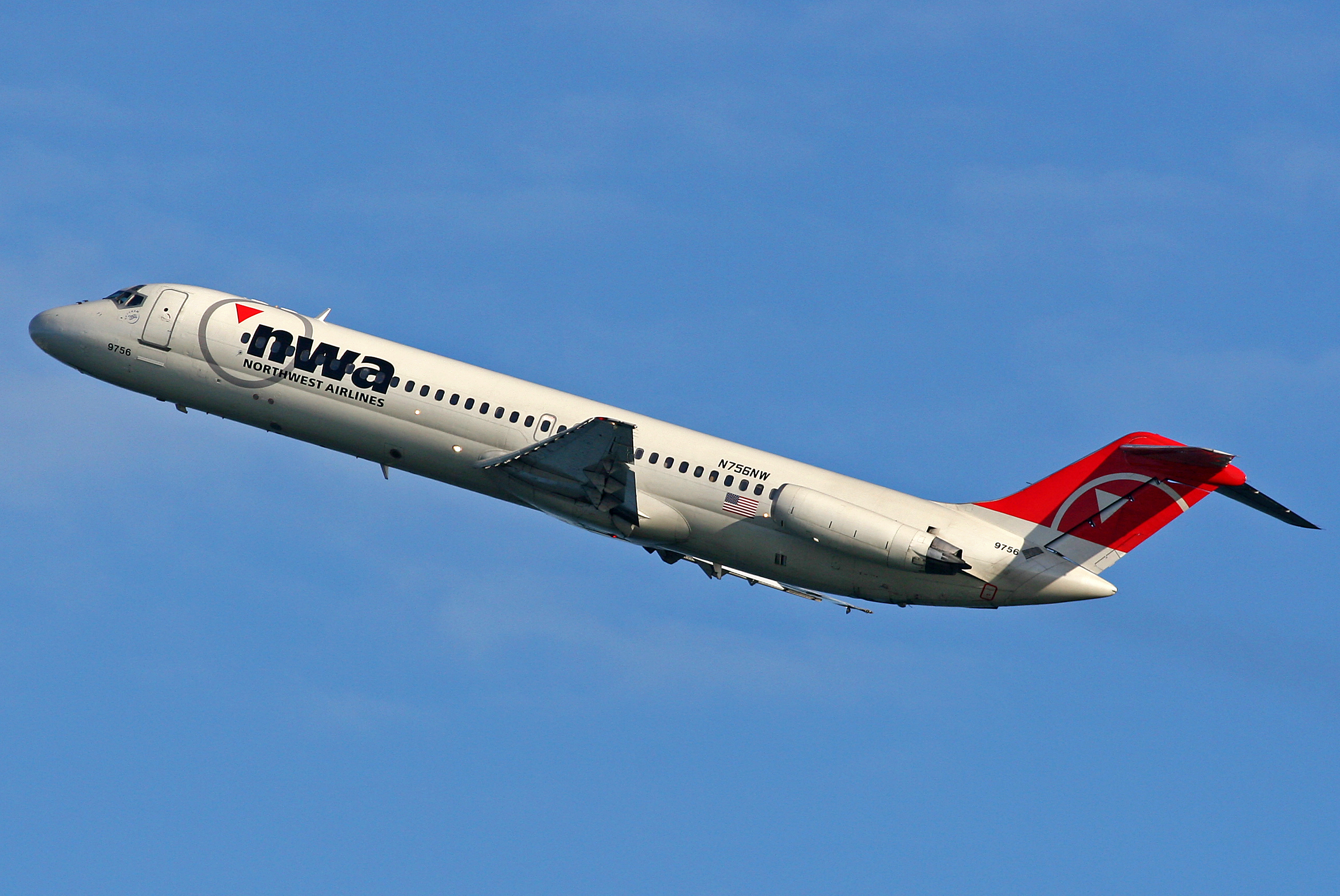 Climbing to altitude.